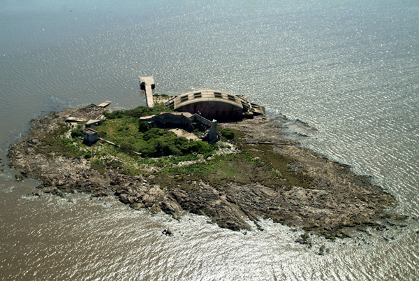 Aerial photo of Isla de las Ratas